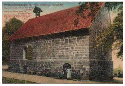 The Wittekindsquelle in Porta Westfalica, local centre Barkhausen, Germany, 1919